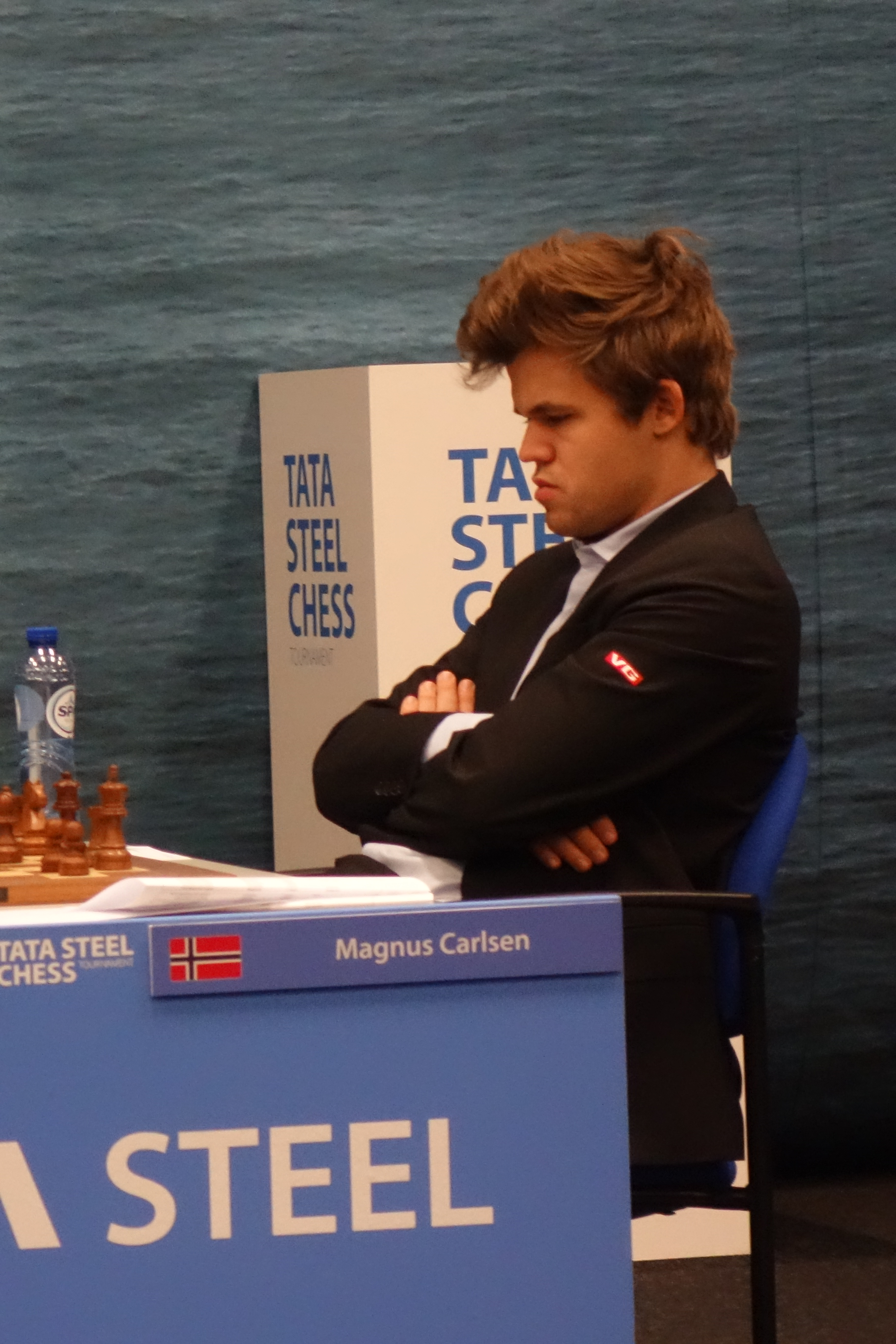 Magnus Carlsen, Tata Steel Chess Tournament 2017, Wijk aan Zee (the Netherlands), 28 January 2017